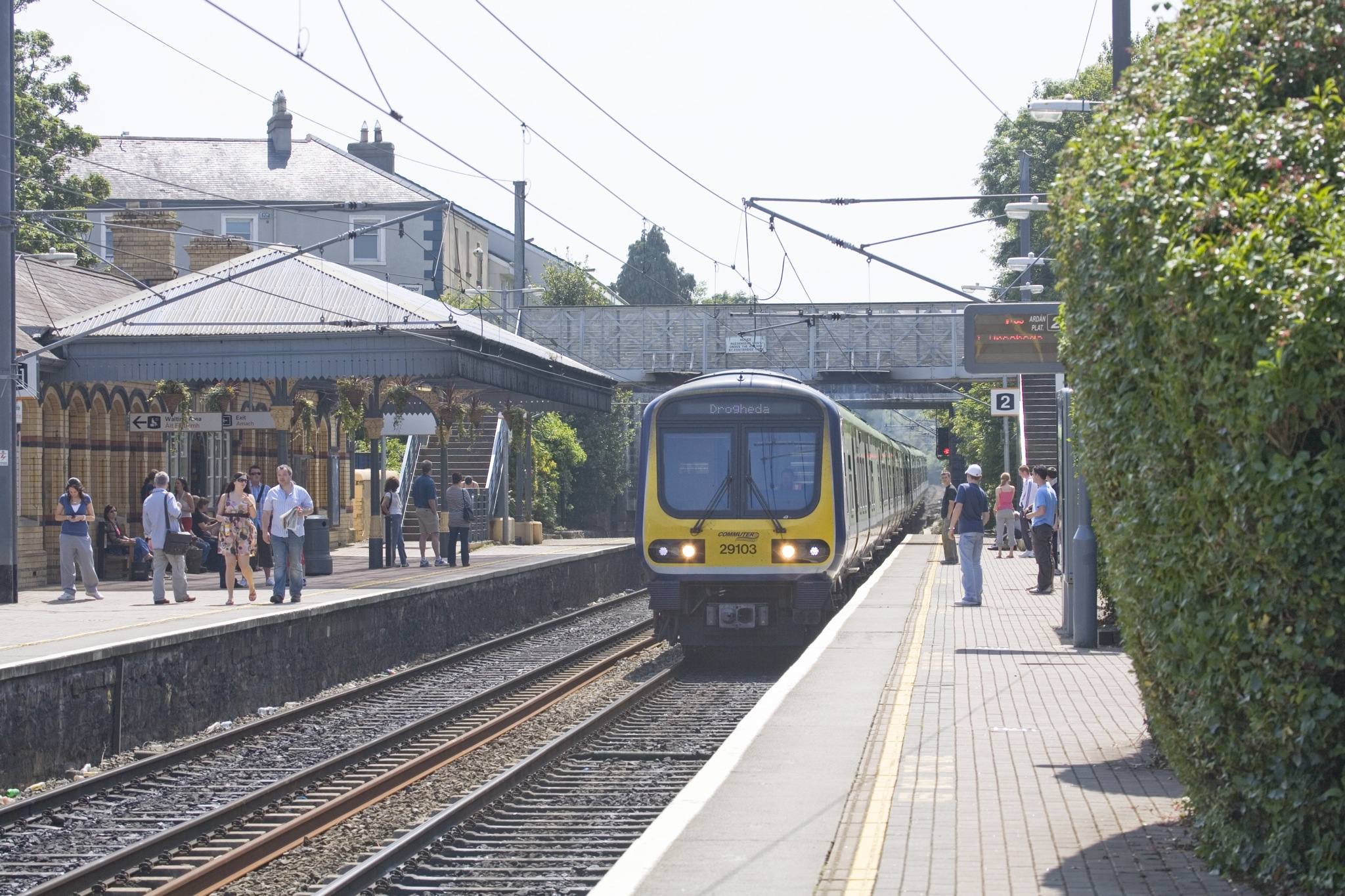 This is actually Malahide Station, I was on my way to Balbriggan when the Train broke down.